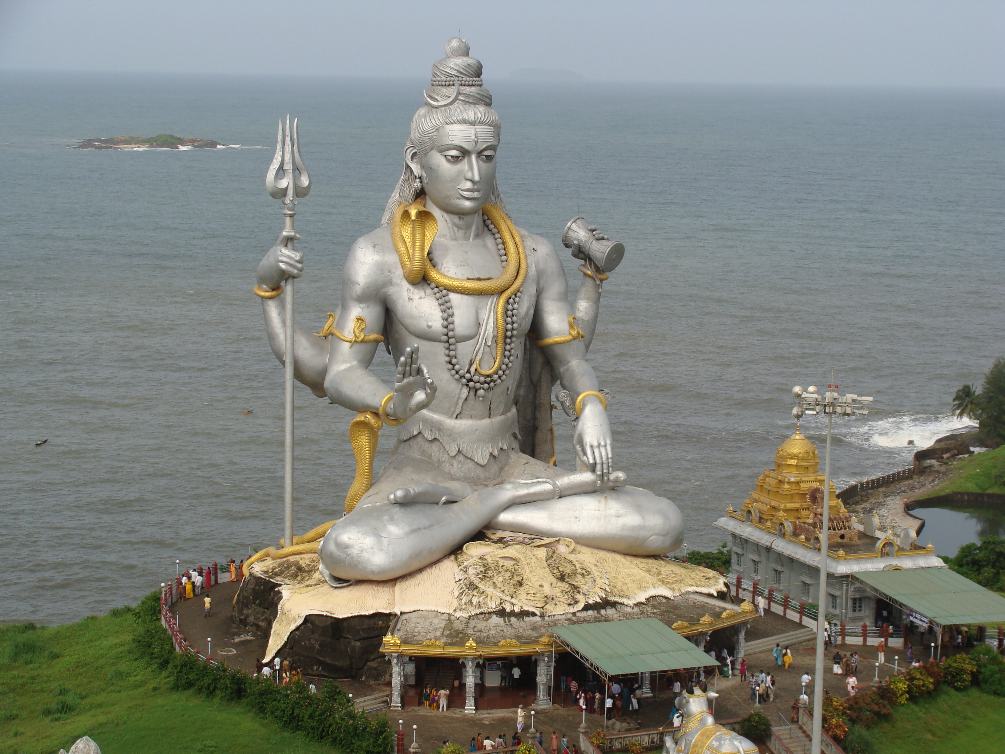 Shiva statue at Murdeshwara, Karnataka, India. It is the largest idol in India, and also one of the largest in Asia.